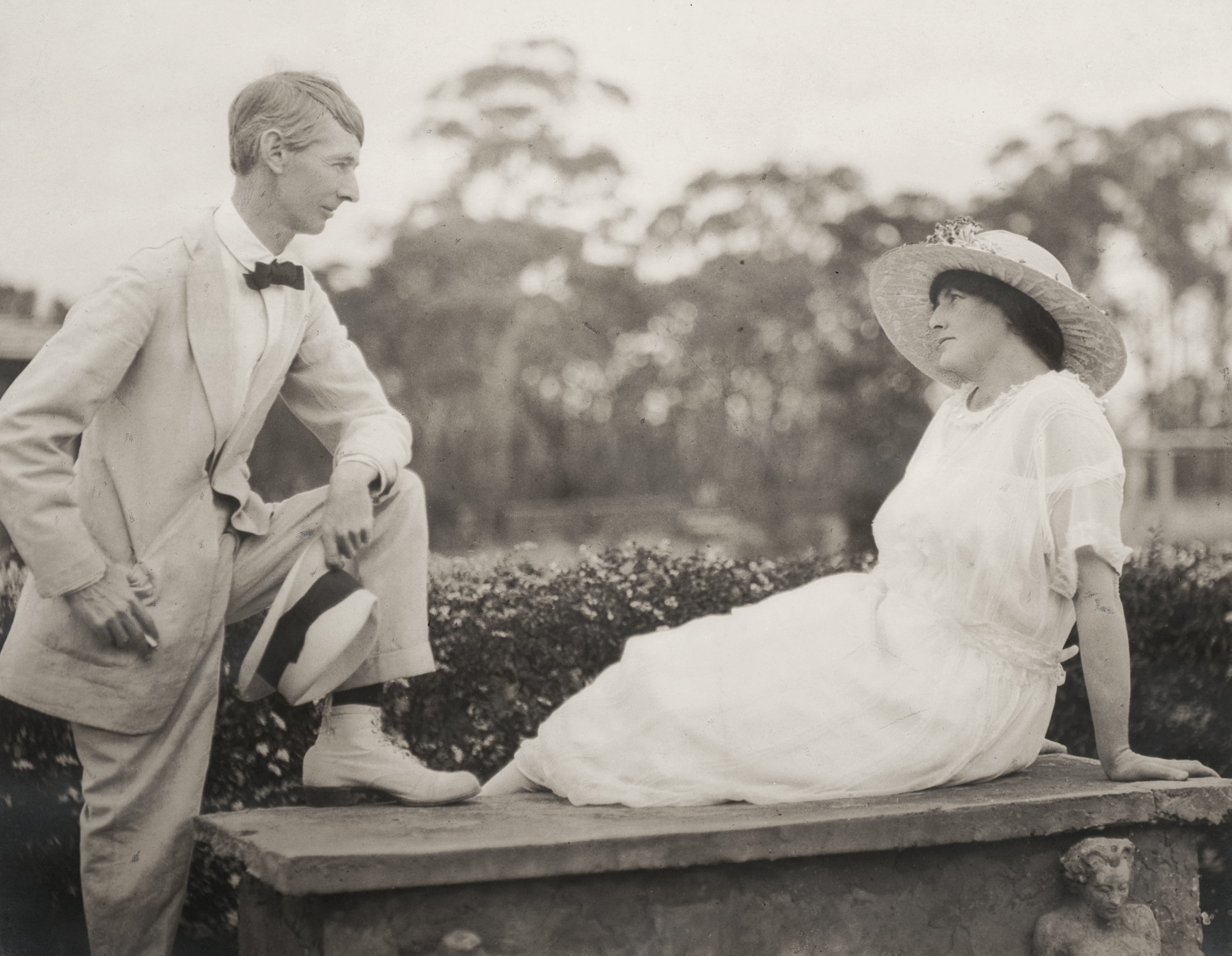 Sepia toned photograph of Norman Lindsay and Rose Lindsay